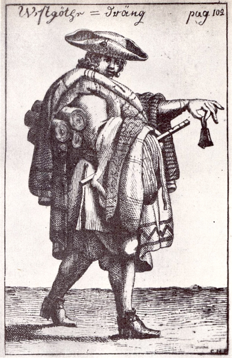 Drawing of a pedlar by the Swedish author Nils Hufwedsson Dal (1690-1740), originally published in his book on Borås, Sweden, called Boërosia (1719).